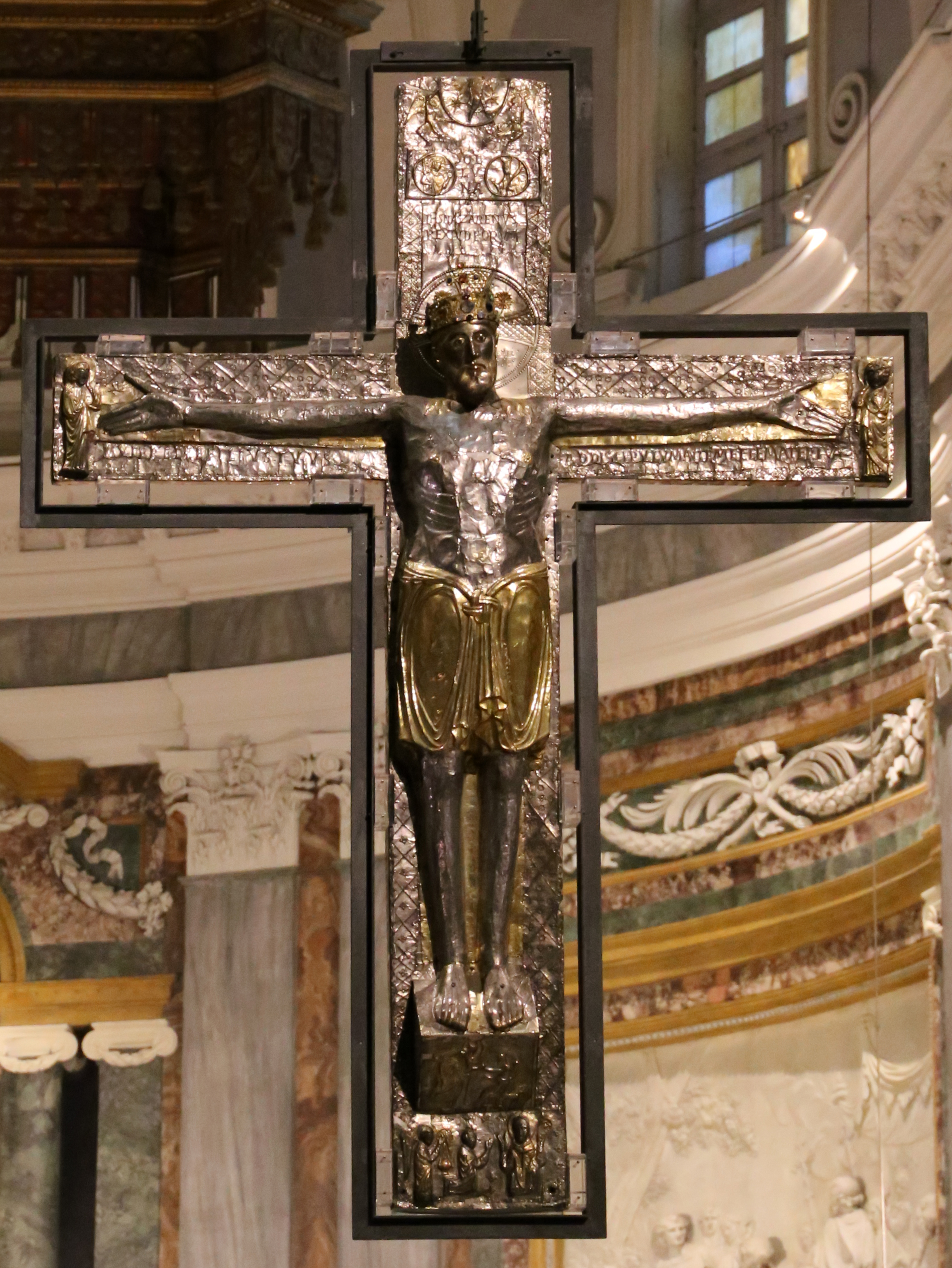 Duomo (Vercelli)